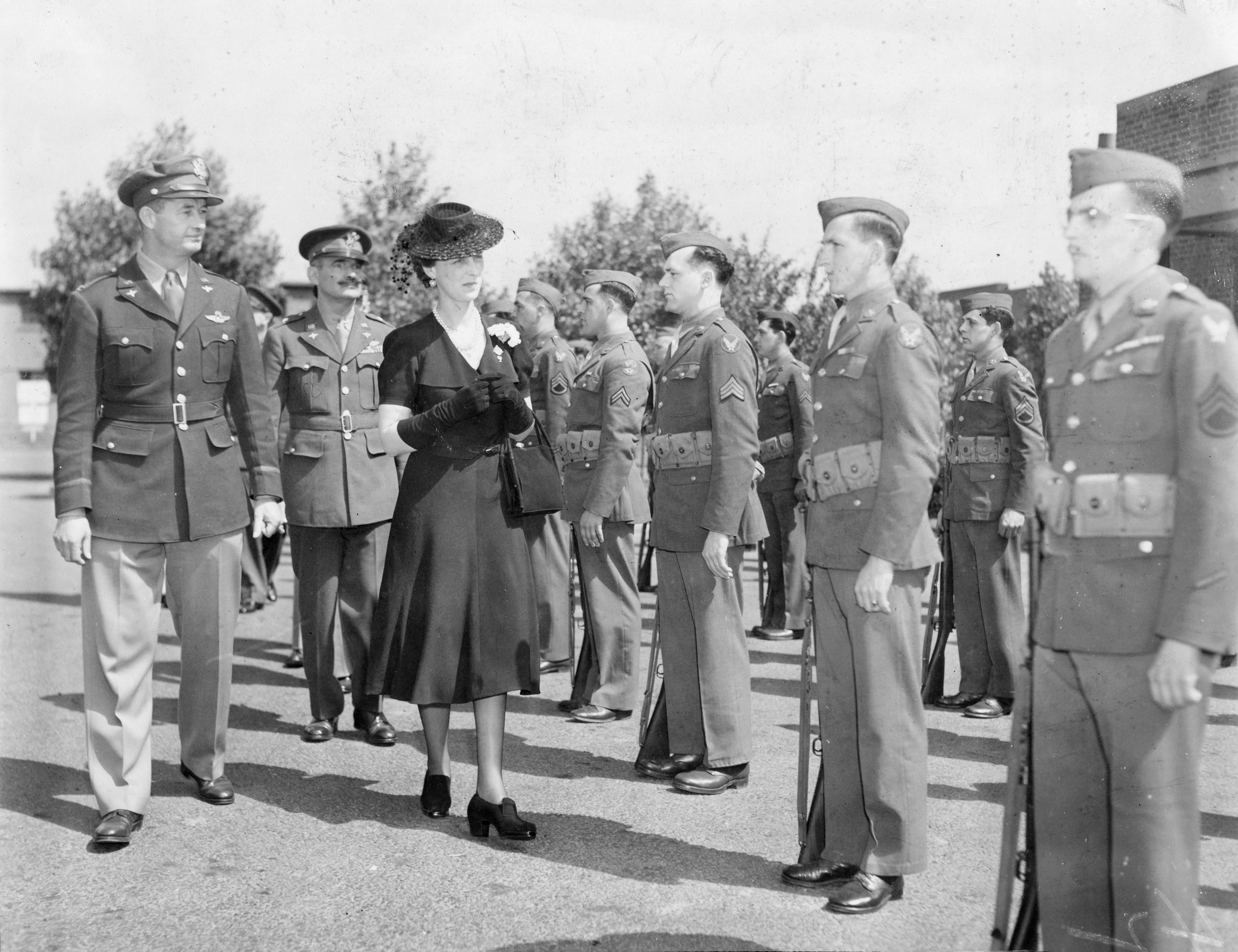 The Duchess of Kent inspects personnel of 4th Fighter Group during a royal visit to Debden, June 1943. Passed for publication 25 Jun 1943. Printed caption on reverse: 'Duchess Of Kent Presents Plaques To Former Eagle Squadron Pilots. H.R.H. The Duchess of Kent visited a U.S. Army Air Station and presented plaques bearing the Eagle Squadron insignia to men who served in the Eagle Squadrons of the R.A.F. prior to the entry of the U.S.A. into the war. Keystone Photo Shows: Left to Right: Col. Anderson, of Tampa, Fla., Commanding Officer of the Field; The Duchess of Kent; back is Gen D. Hunter, of Savanna, Georgia, inspecting American troops. SG/US-Pool/B. Keystone (41&42).' On reverse: Keystone Press, US Army Press Censor ETO and US Army General Section Press & Censorship Bureau [Stamps].